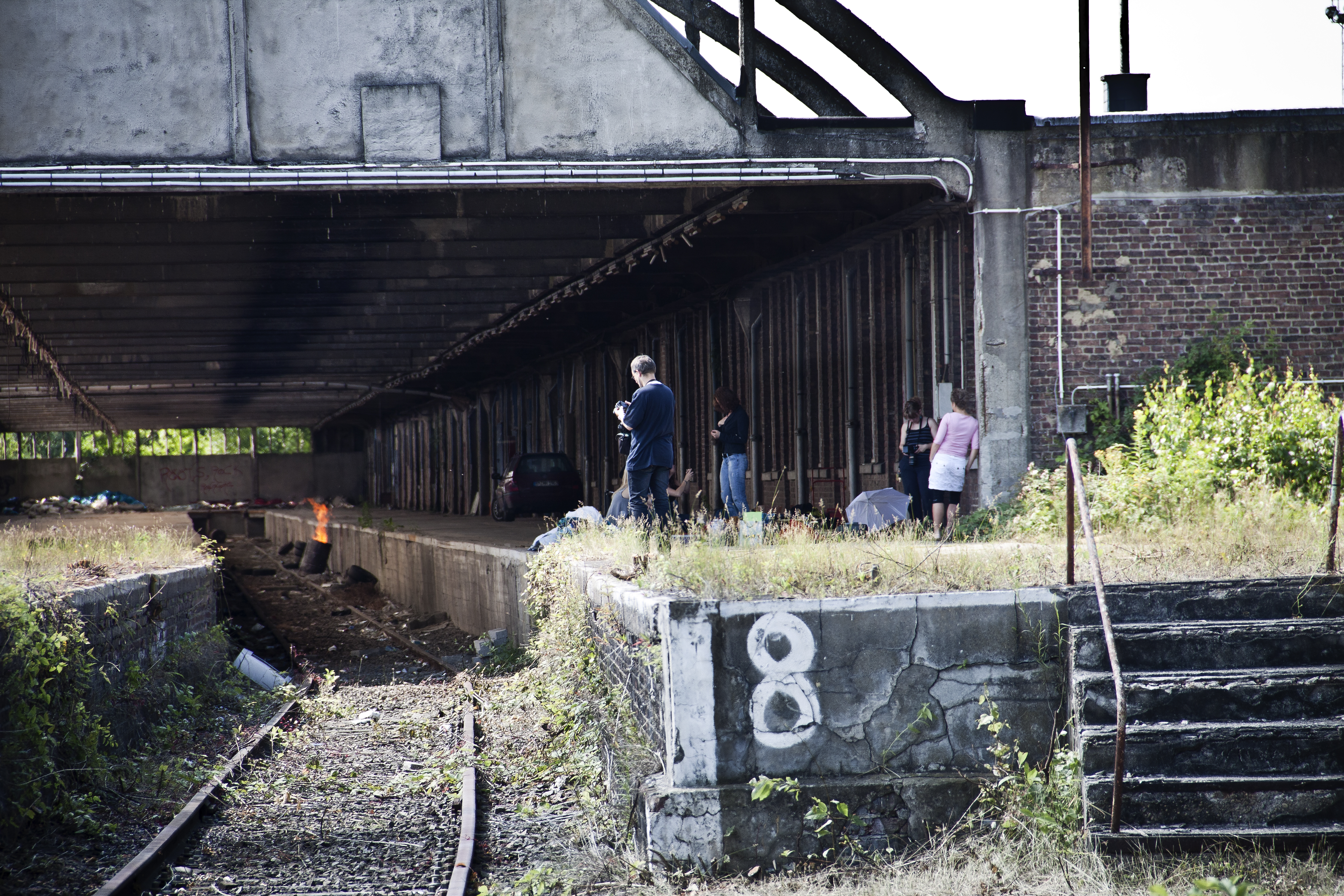 Montzen rail station